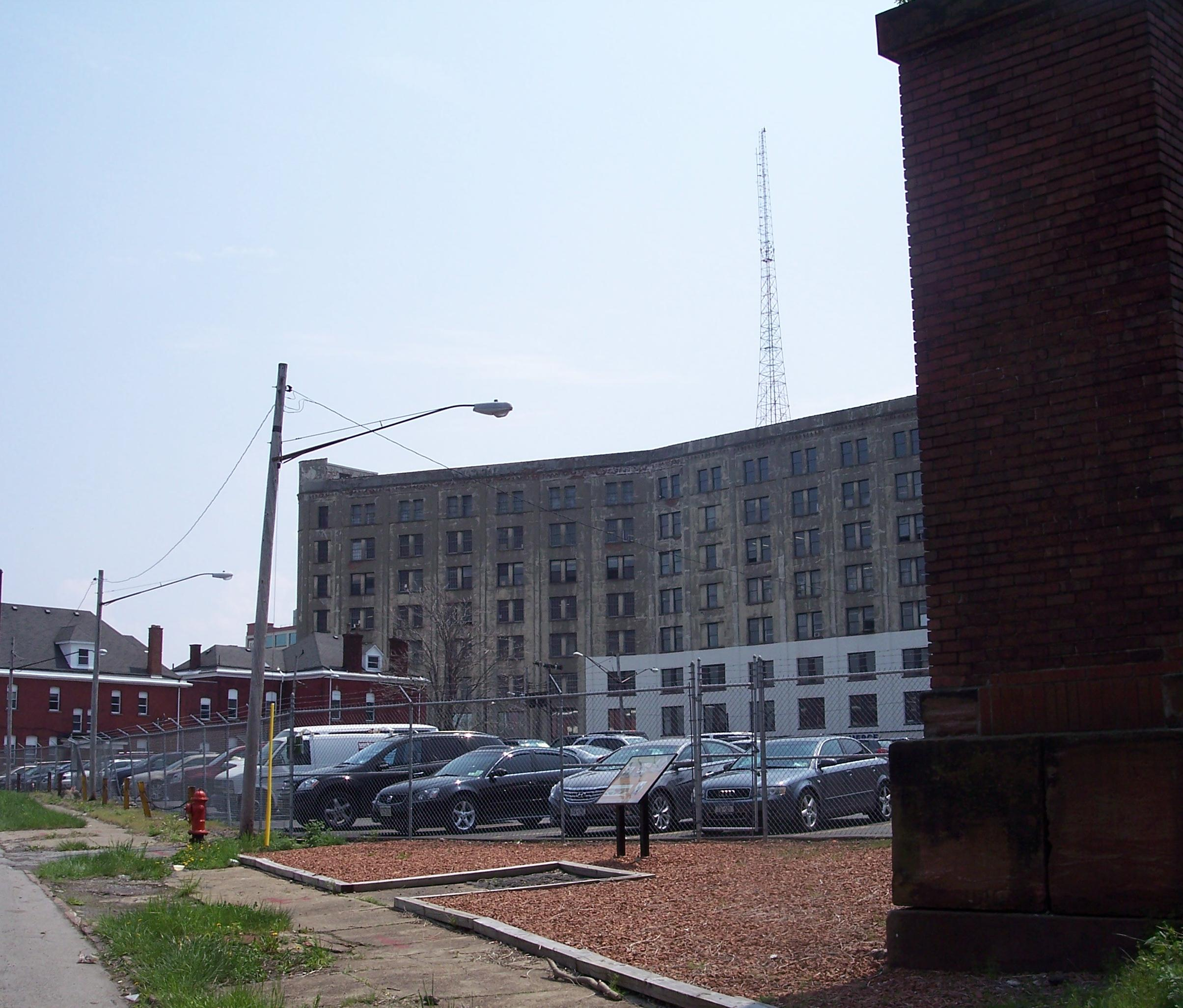 What remains of the Larkin Administration Building in Buffalo NY